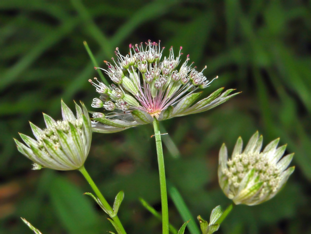 Astrantia major - Gorzente, Genova, Italy